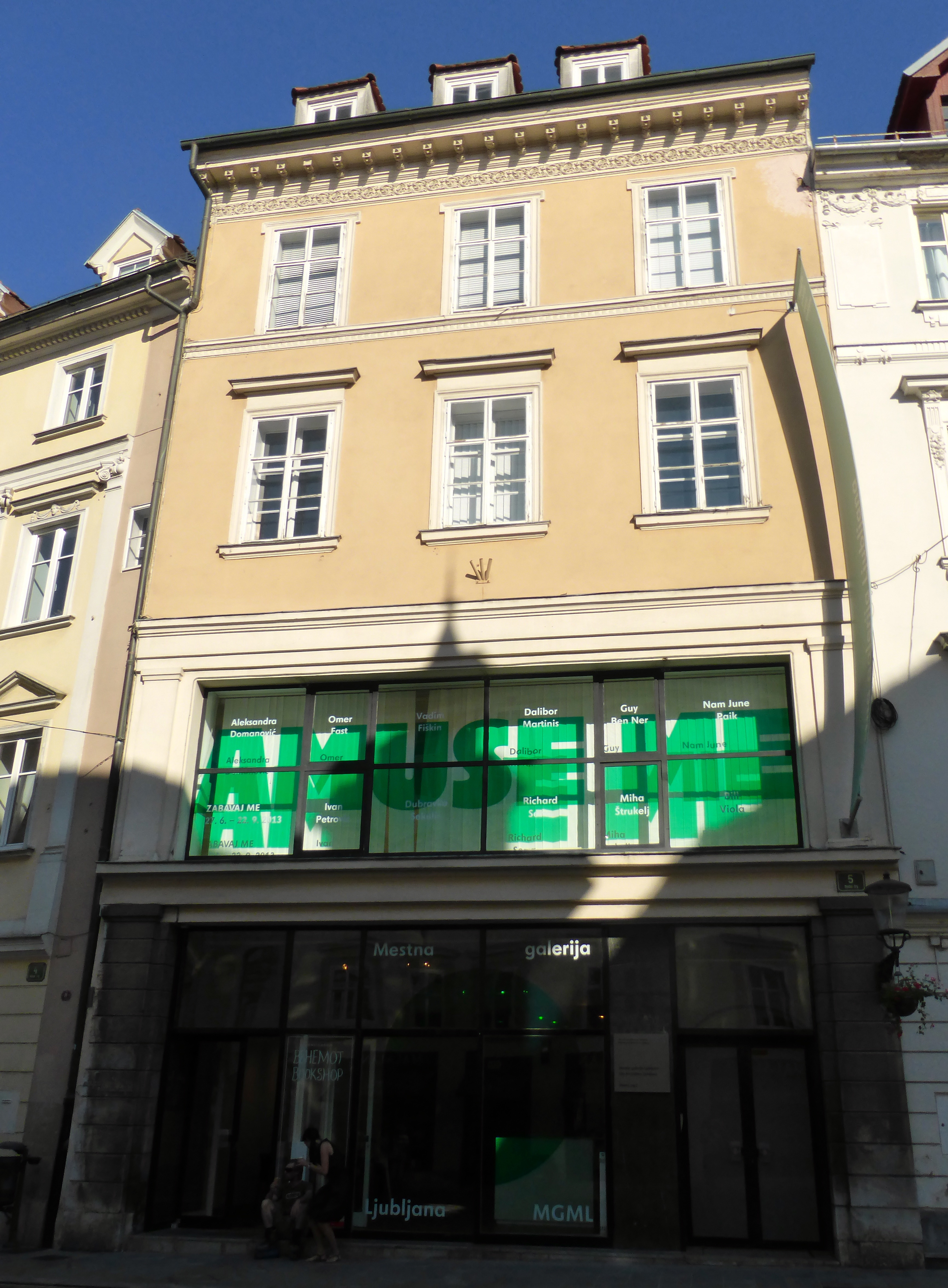 Mestna Galerija Ljubljana is hosting a show called "Amuse Me" (Zabavaj Me) with superior video works by Nam June Paik, Bill Viola, Guy Ben Ner, Richard Serra and others.